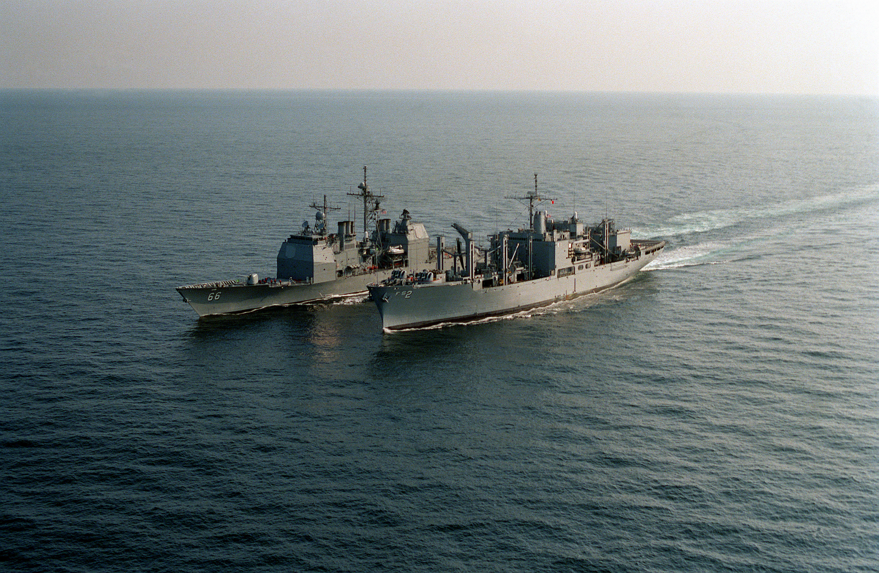 The U.S. Navy guided missile cruiser USS Hué City (CG-66) and the combat support ship USS Sylvania (AFS-2) conduct an underway replenishment off the Virginia Capes.